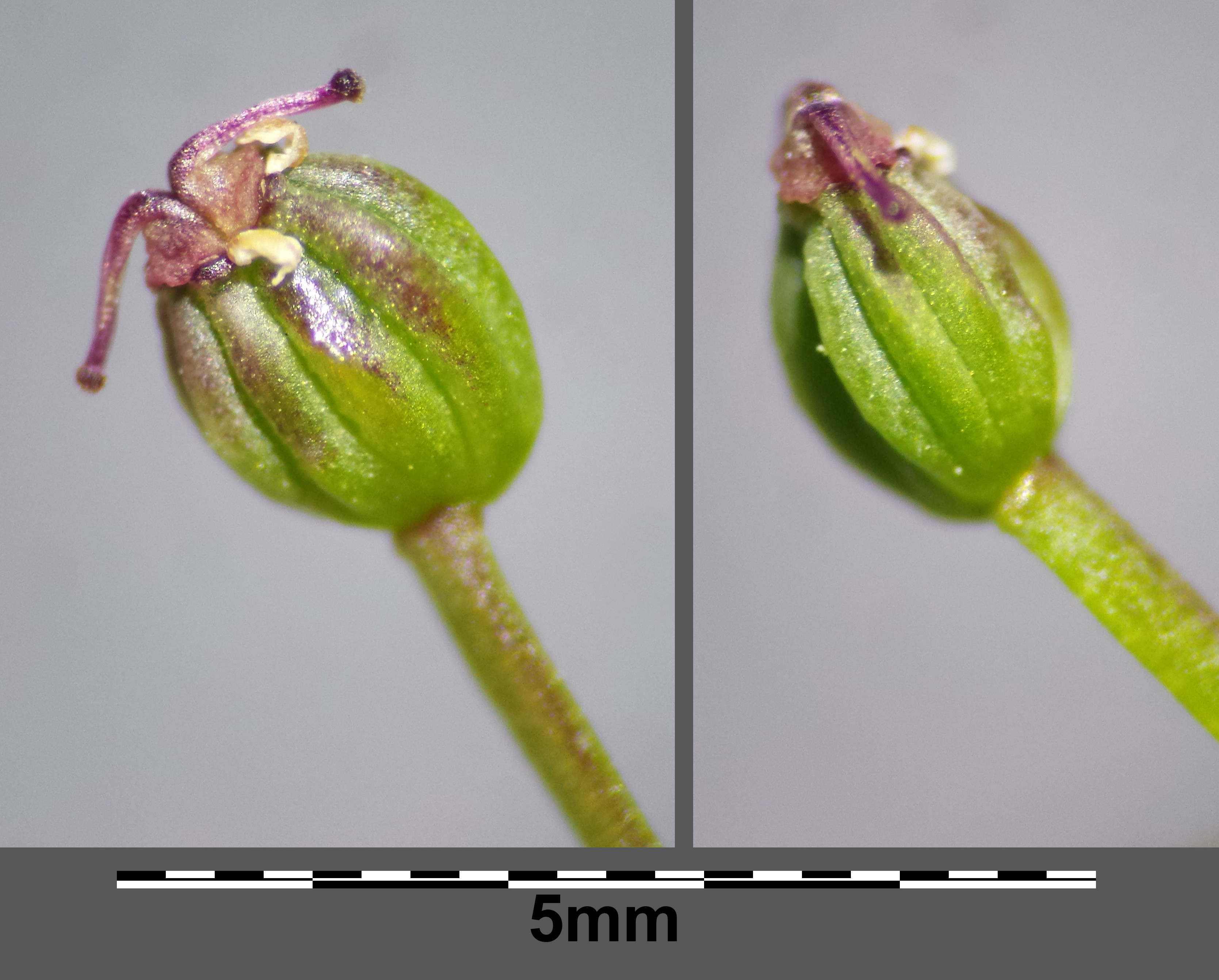 Fruit (♀-Individual) Taxonym: Trinia glauca (subsp. glauca) ss Fischer et al. EfÖLS 2008 ISBN 978-3-85474-187-9 Location: Blosenberg near Winzendorf, district Wiener Neustadt, Lower Austria - ca. 380 m a.s.l. Habitat: dry grassland